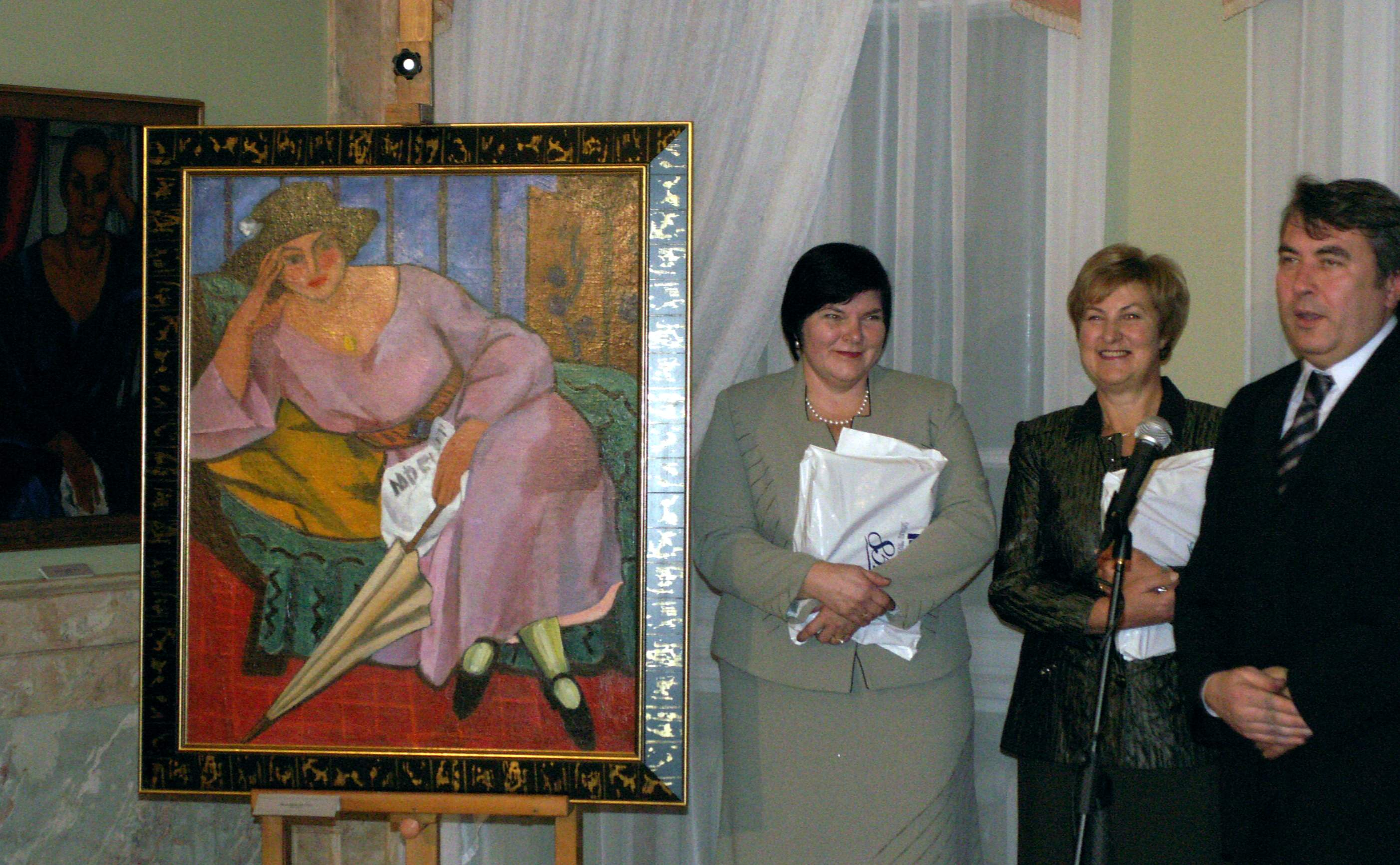 Opening of exhibition of latvian painter Gedert Eliass in Šiauliai Aušra museum, Lithuania